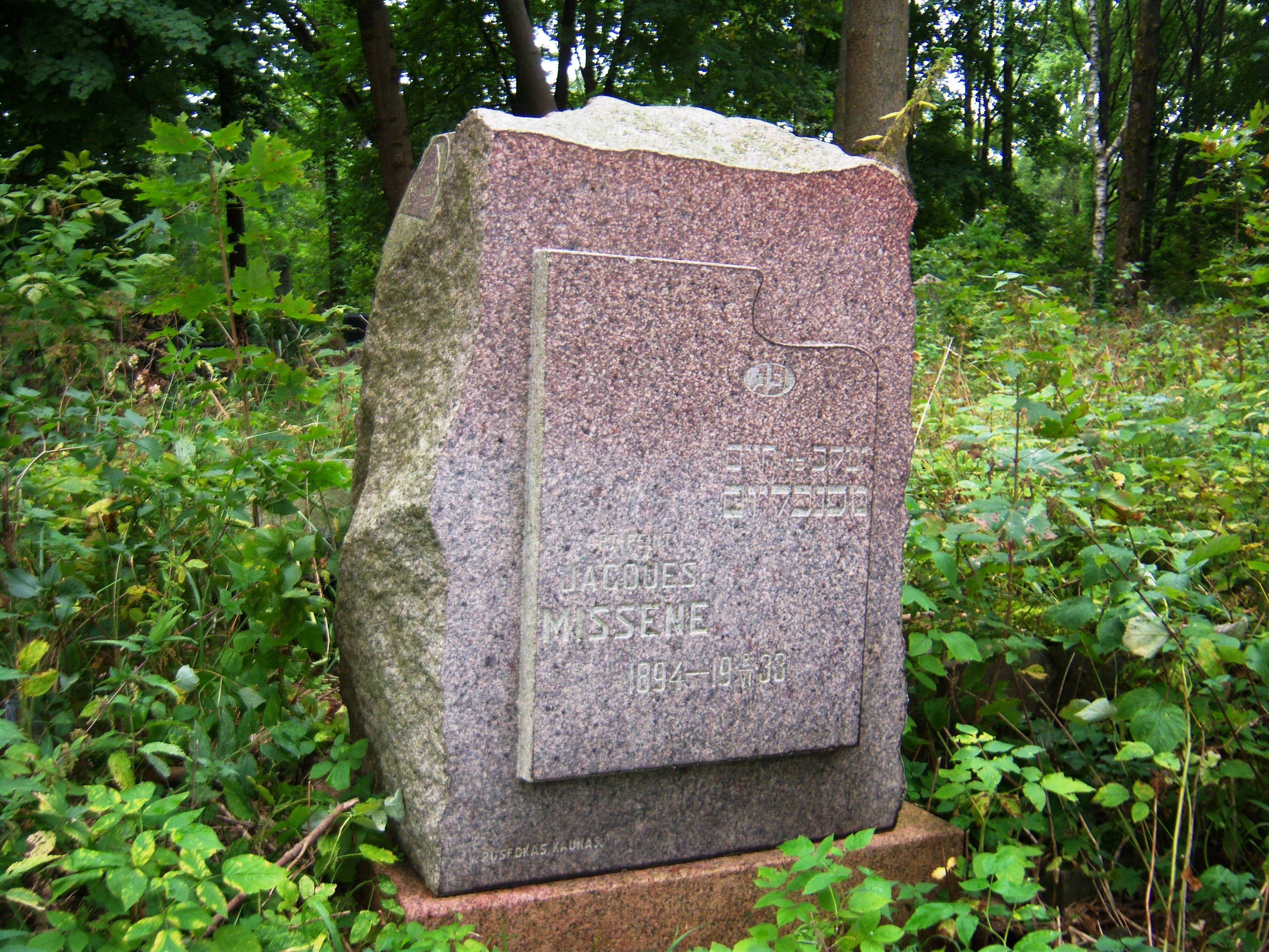 Tomb of Jacob Messenblum (Jacques Missene), painter, old Žaliakalnis jewish cemetery, Kaunas, Lithuania